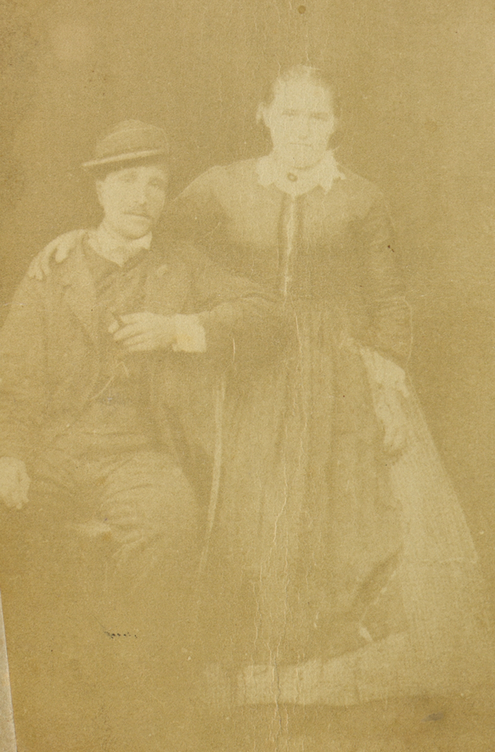 Franc Guzaj, slovene robber.